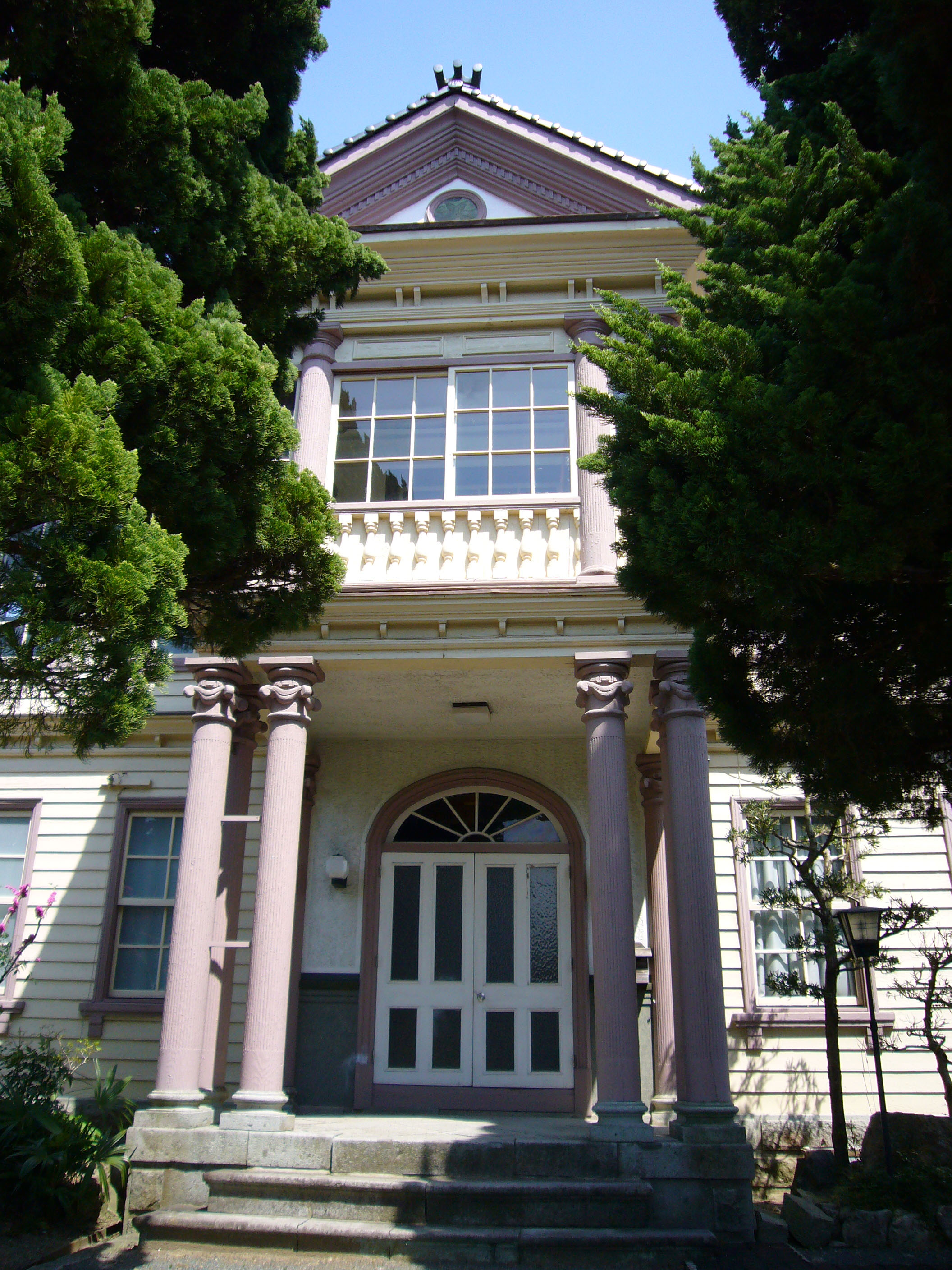 Old Hikami District's Towns-and-villages associations' Higher elementary school in Tamba, Hyogo prefecture, Japan